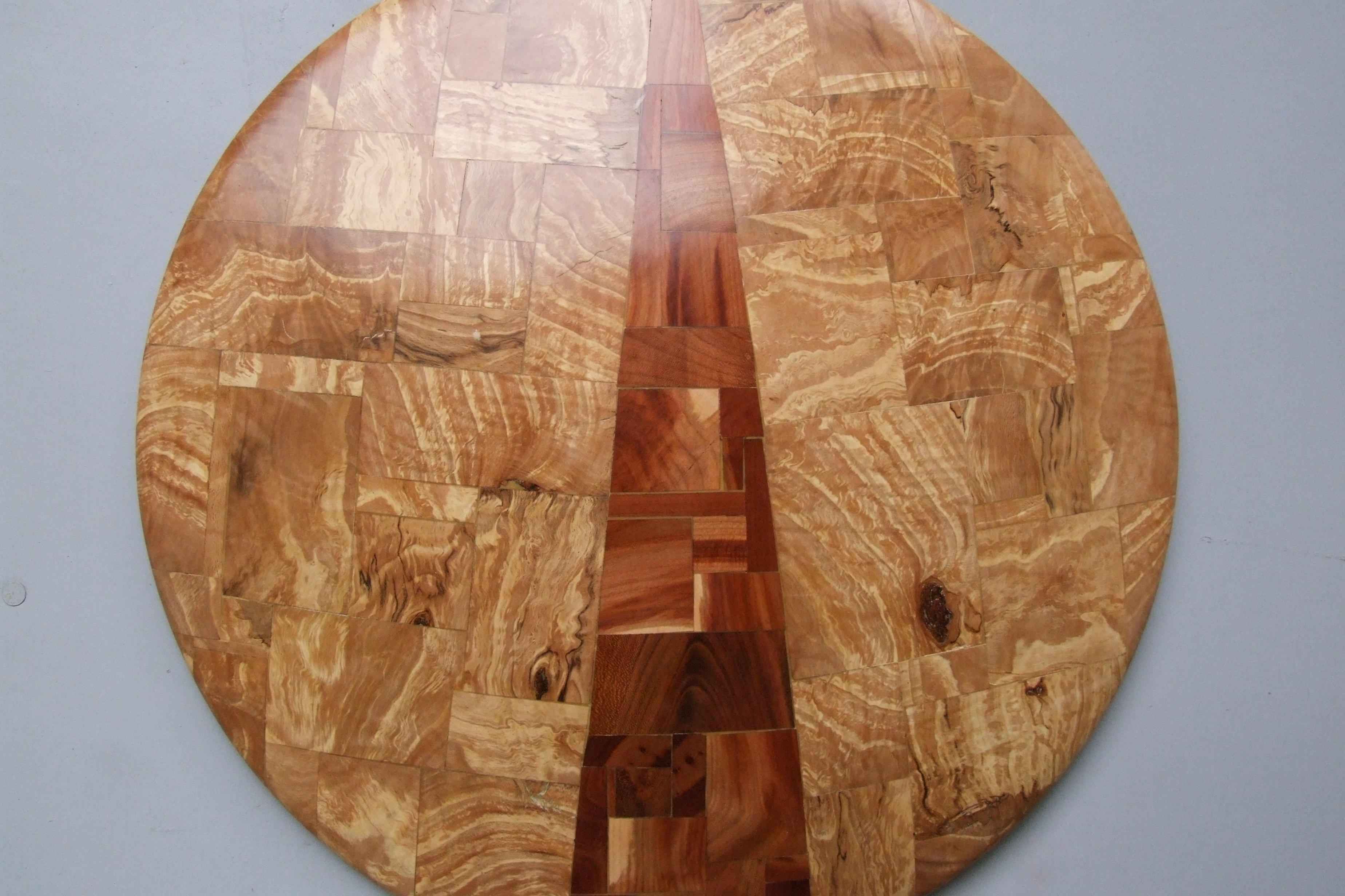 Wooden Buckler